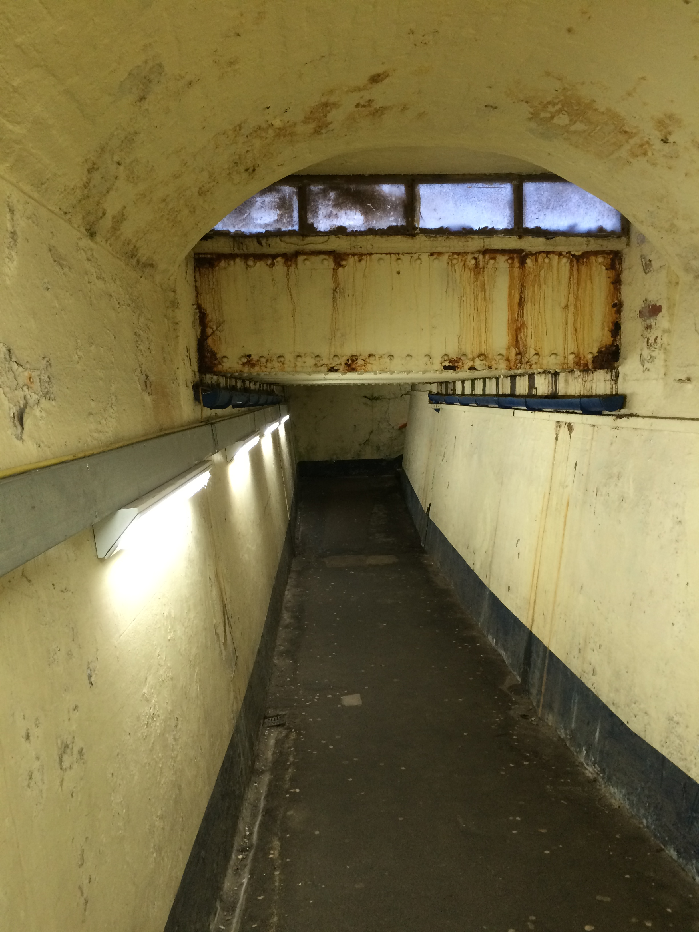 Subway connecting Platform 1 and 2 at Godalming railway station in Surrey. This is an old fashioned, non-accessible tunnel, due for replacement with new lifts and bridge in 2016. The strip of windows visible is set in the wall under the platform edge.